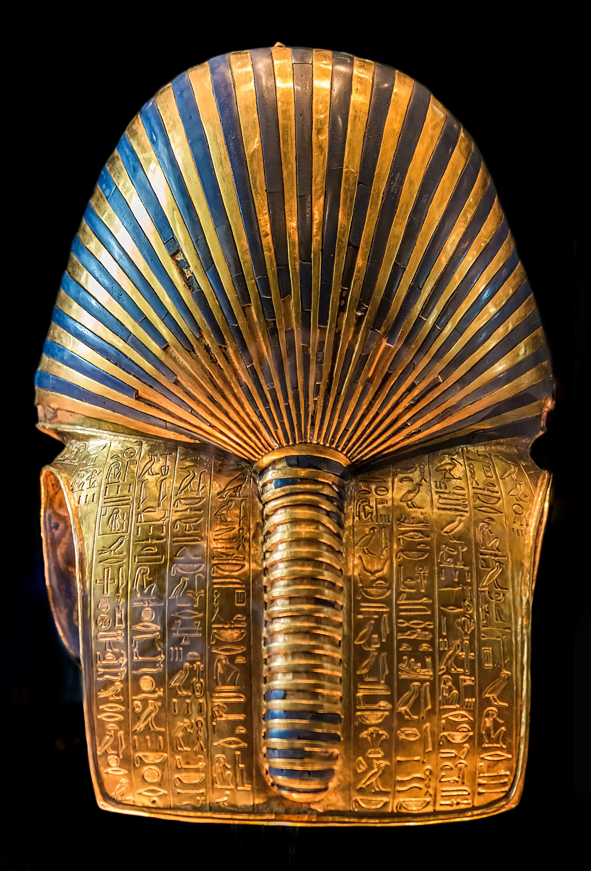 Tutankhamun's mask, or funerary mask of Tutankhamun, is the death mask of the 18th-dynasty Ancient Egyptian Pharaoh Tutankhamun